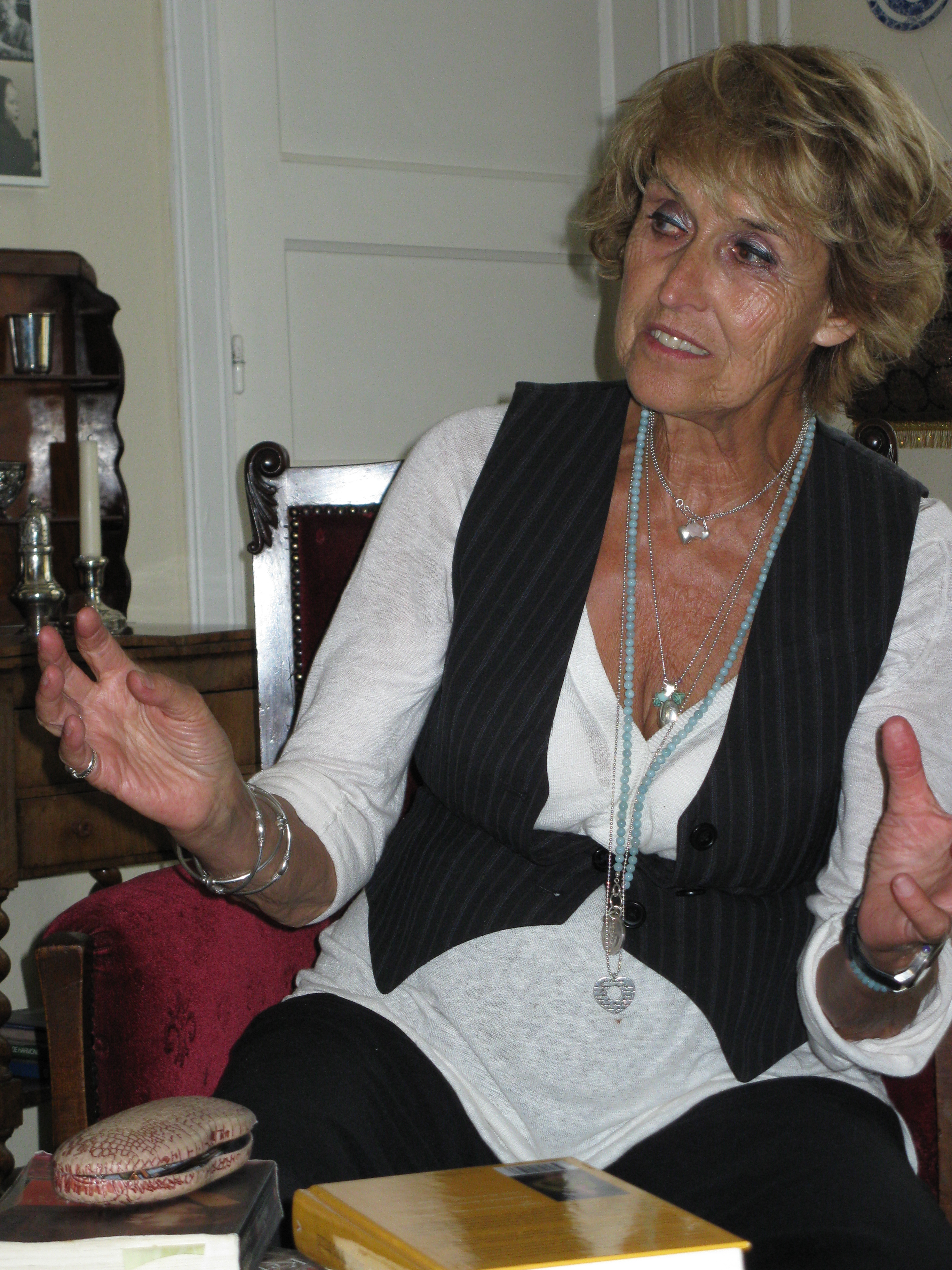 Portrait of Yvonne Keuls, Portrait shot at "Verhaal halen" also known as "Dichter bij huis"